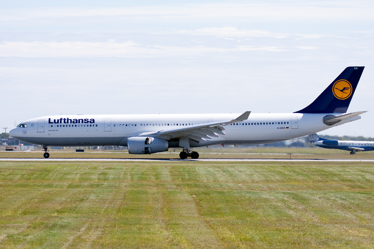 Lufthansa Airbus A330-300 D-AIKK at Montréal-Pierre Elliott Trudeau International Airport in septembre 2009.